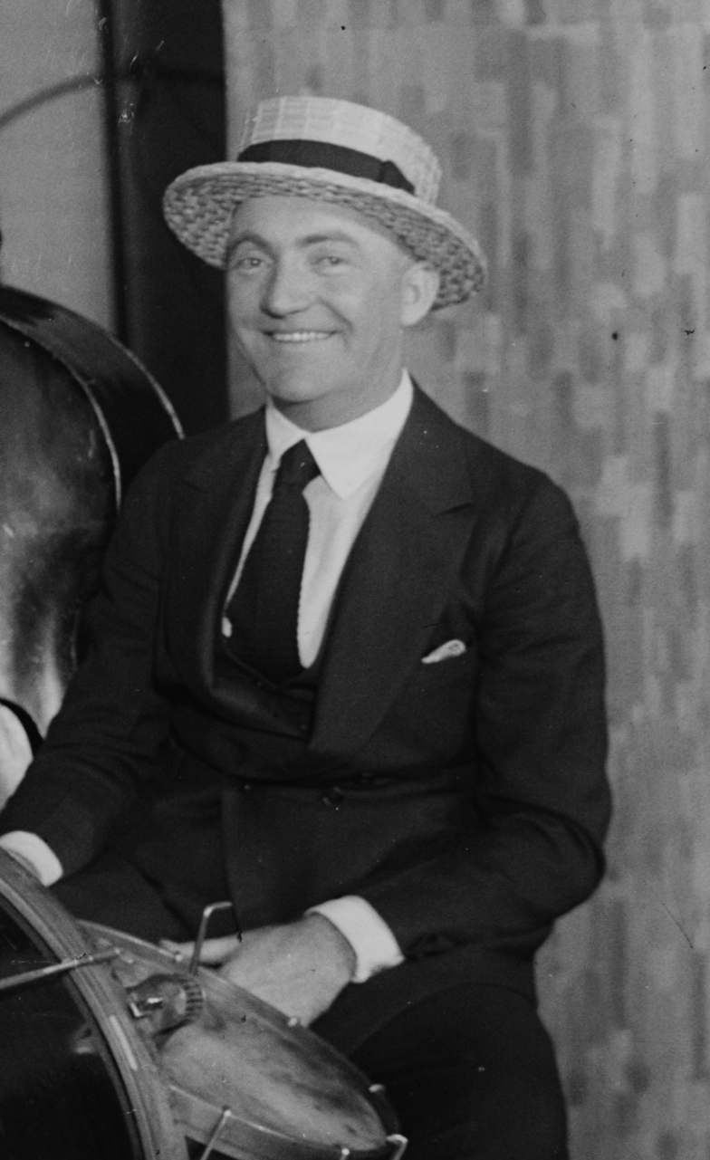 Art Hickman. Bain News Service photo, probably taken on the Orchestra's trip to New York City in 1919 or 1920. Art Hickman at right on drums.